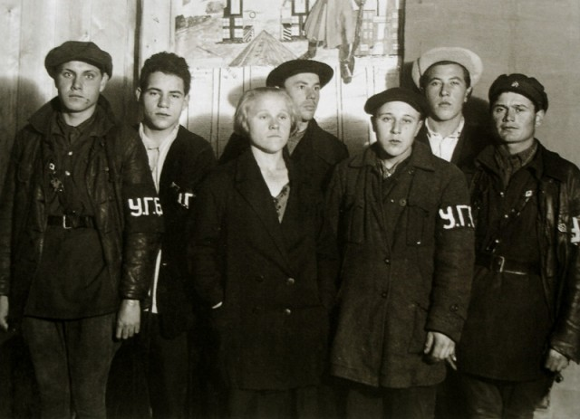 Strike group to combat hooliganism. USSR, 1920